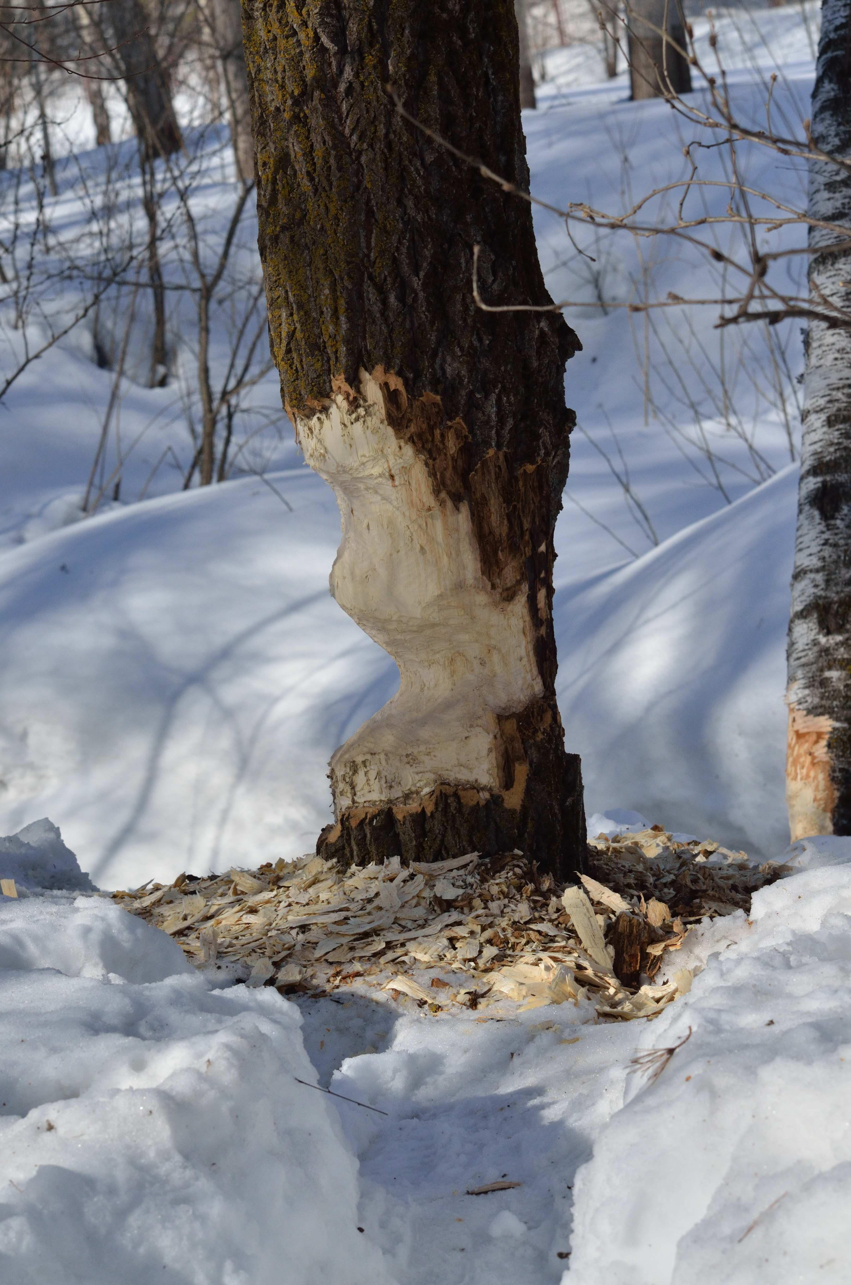 A tree, hurted by beavers on Zyryanka river.